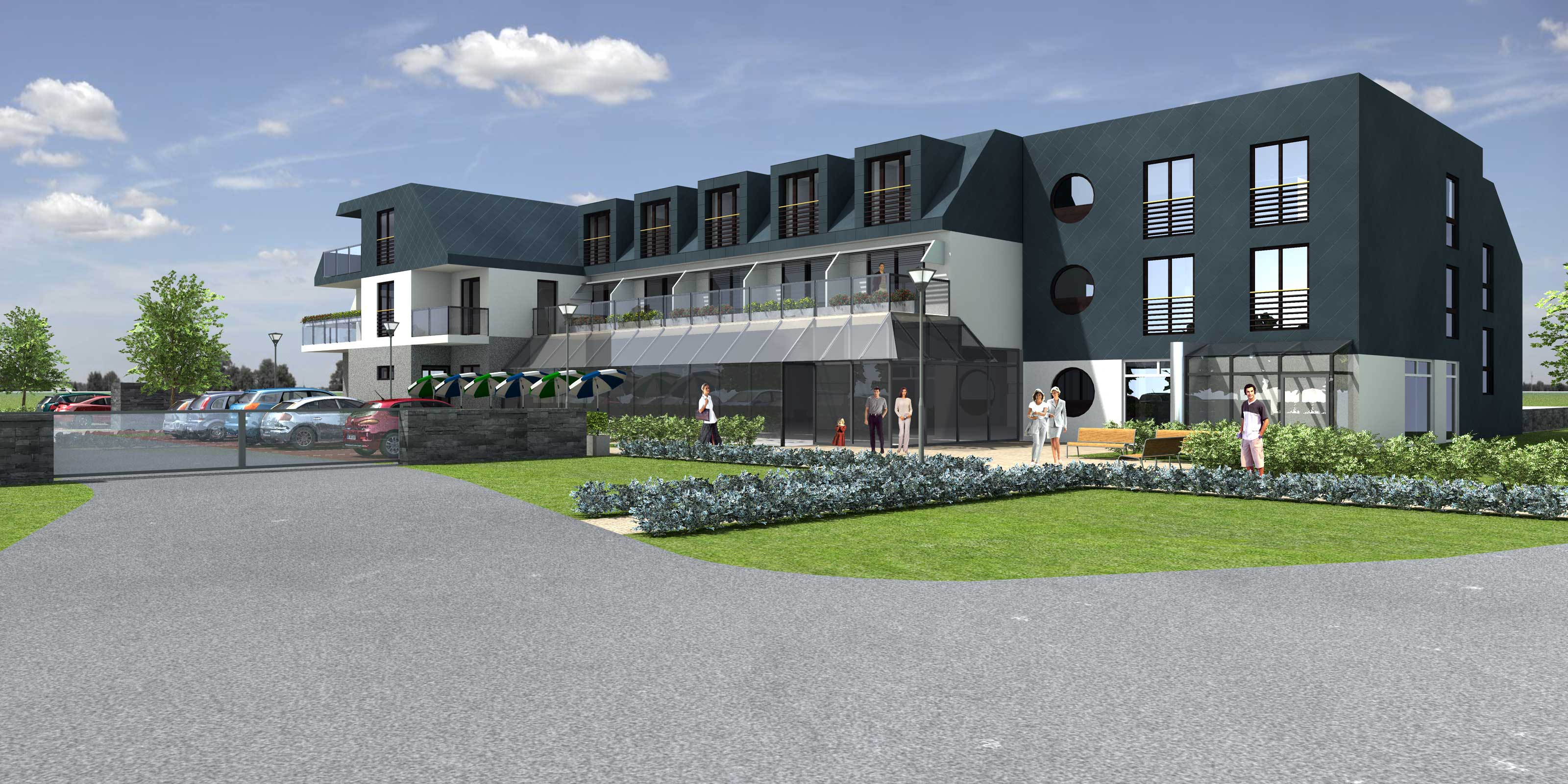 LD Balnea